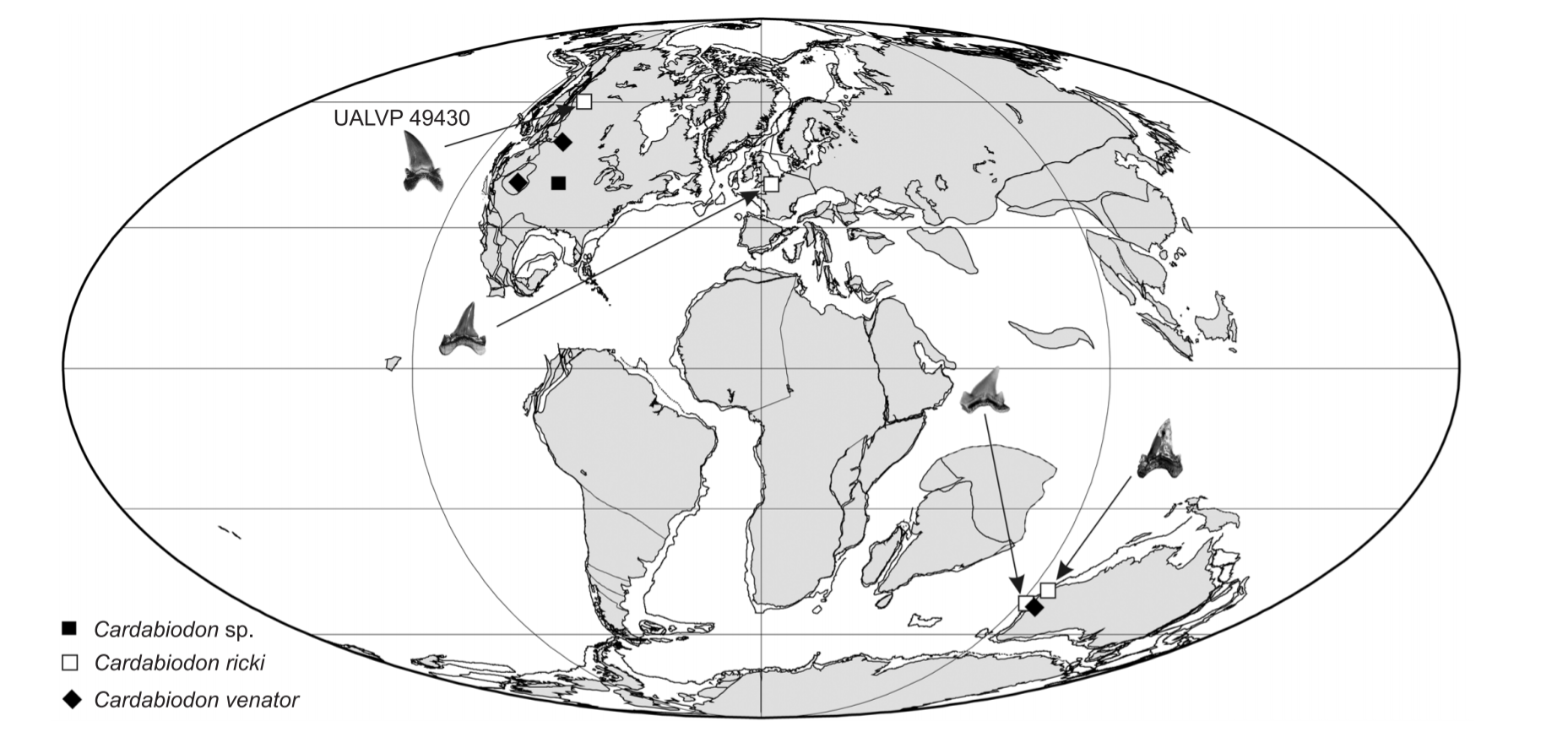 Fig. 1. Early Late Cretaceous map (90 Ma; PLATES Program 2009) showing locations of fossil localities (late Cenomanian to middle Turonian) yielding Cardabiodon spp. (see Cook et al. 2010). UALVP 49430 from Canada is likely a transitional morphotype between Cardabiodon ricki and Cardabiodon venator.